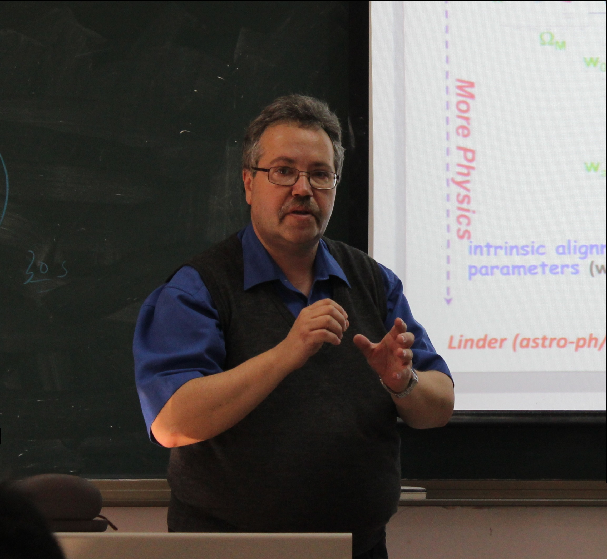 Marek Biesiada